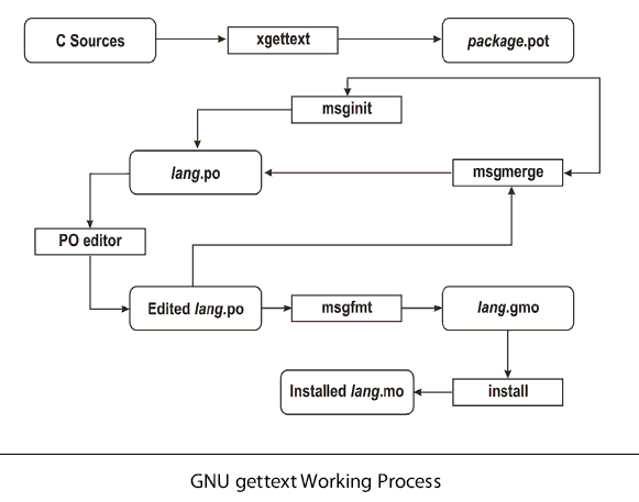 GNU gettext working process